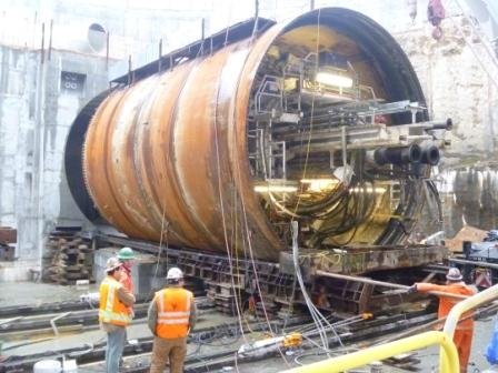 On May 29, 2012, the tunnel boring machine shown here completed mining the third East Side Access tunnel to be built in Queens. This photo shows the machine being reassembled as crews prepared it for the tunnel mining operation. Photo: Metropolitan Transportation Authority.